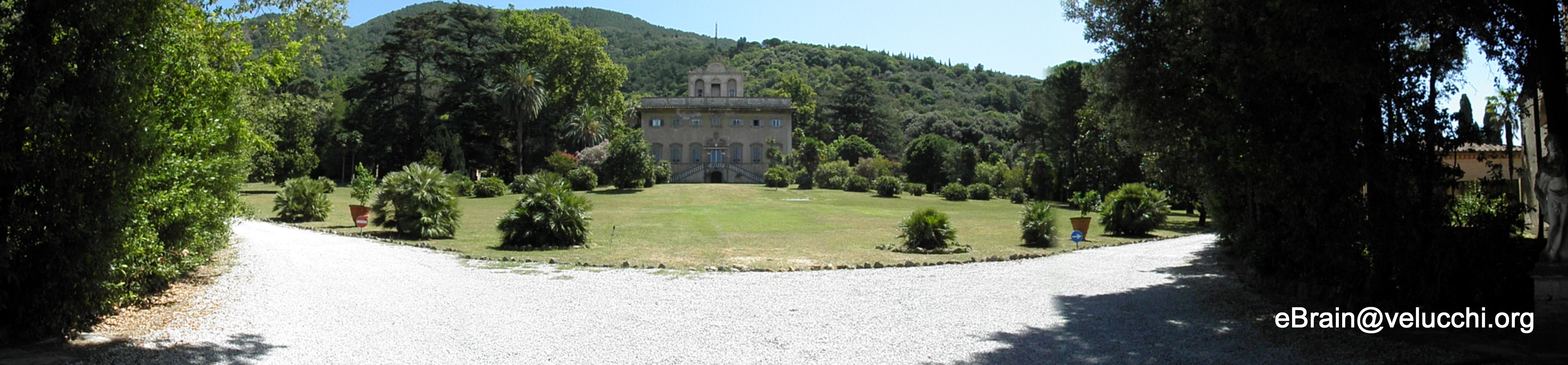 The Palazzo al Borgo di Corliano (Villa di Corliano) — a villa situated near coast of Tuscany, central Italy. Located in the valley between Lucca and Pisa, 2 kilometres from the spa town of San Giuliano Terme in the Province of Pisa. It is one of the numerous villas that built by the Pisan merchants as summer houses, along the fertile west slopes of Mount Pisano.